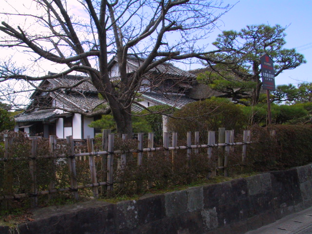 The house where Shigenobu Ōkuma was born. Saga City, Japan